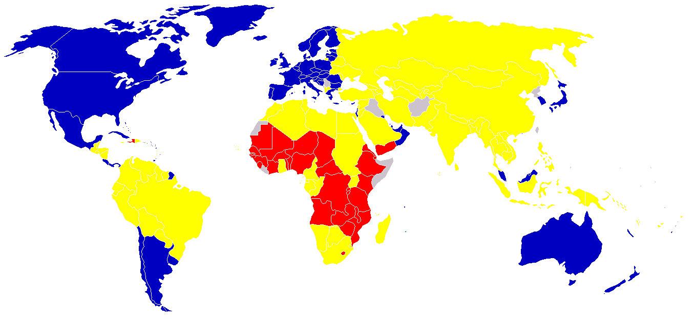 Map based on 2006 stats according to List of countries by Human Development Index. Based on Image:HDImap2006.png by Danutz licenced under GNU FDL v1.2. Modified by Andrew Oakley so that it is distinguishable by people with red-green colour vision deficiency. Andrew Oakley 09:41, 26 January 2007 (UTC); (0.800 – 1.000) High (0.500 – 0.799) Medium (0.300 – 0.499) Low) N/A